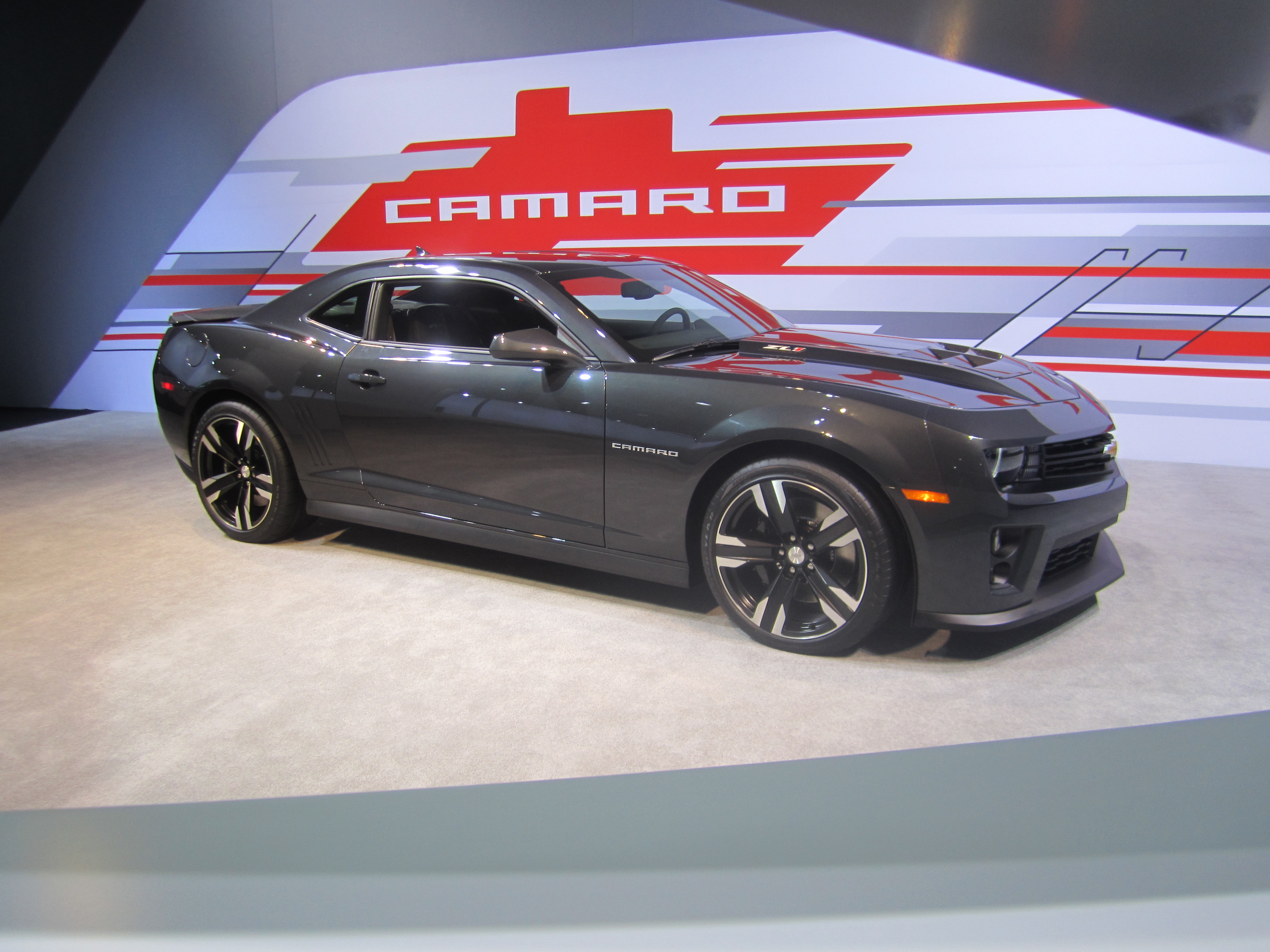 2012 North American International Auto Show Detroit, Michigan